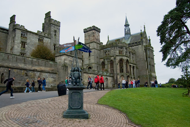 Alton Towers The house on the southern side of the theme park site. It was called Alton Lodge during its early life, and was the summer residence for the Earl of Shrewsbury and his family. Charles, the 15th Earl, took more interest in the house and its grounds. He began to extend it in 1800 and continued, with major work being done or planned every year until 1852. to full history of the house.